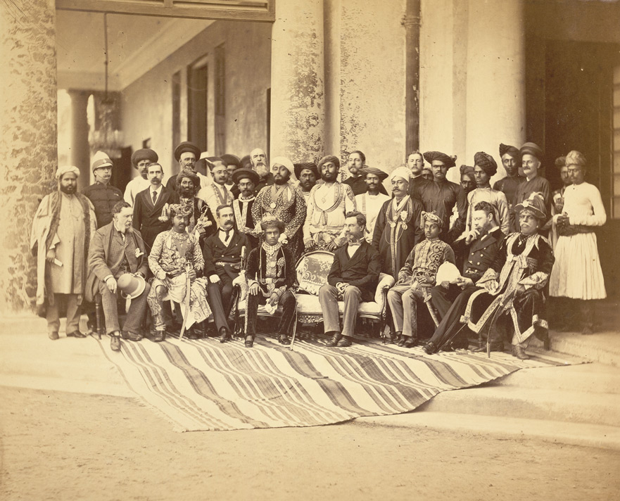 Group portrait of Sir Sayaji Rao, the young Gaekwar of Baroda (seated, front centre), Sir Richard Temple, Governor of Bombay and officials. Also in the portrait Sir Madhav T Rao, British appointed administrator of Baroda and Phillip S. Melville, Agent to the Governor General. The state of Baroda (Vadodara) in Gujarat, western India.